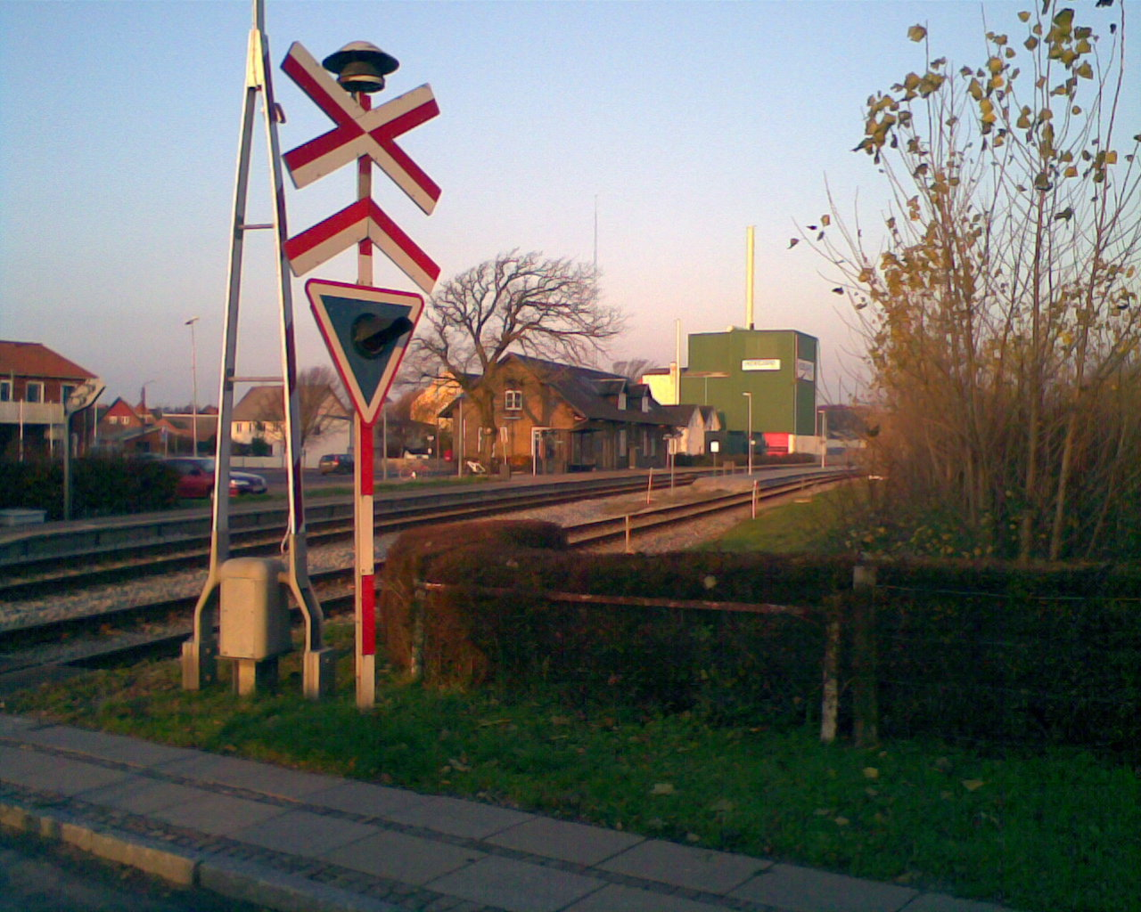 Bedsted Thy Station, Denmark